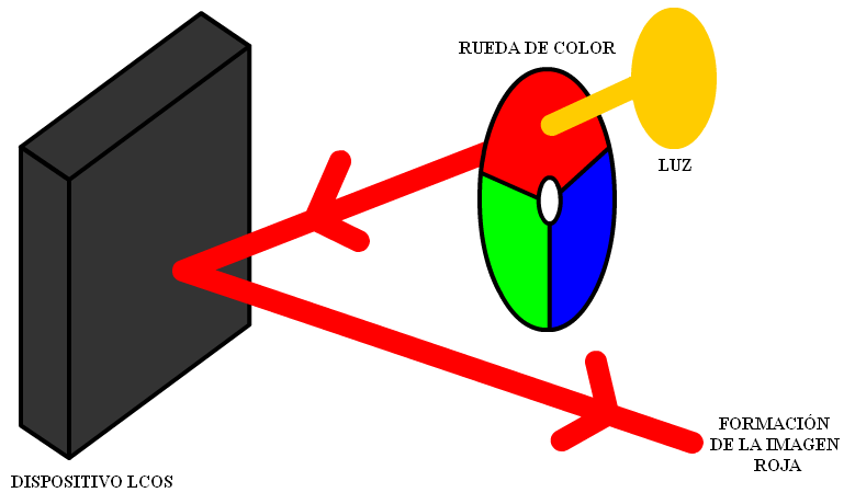 LCOS color method graph